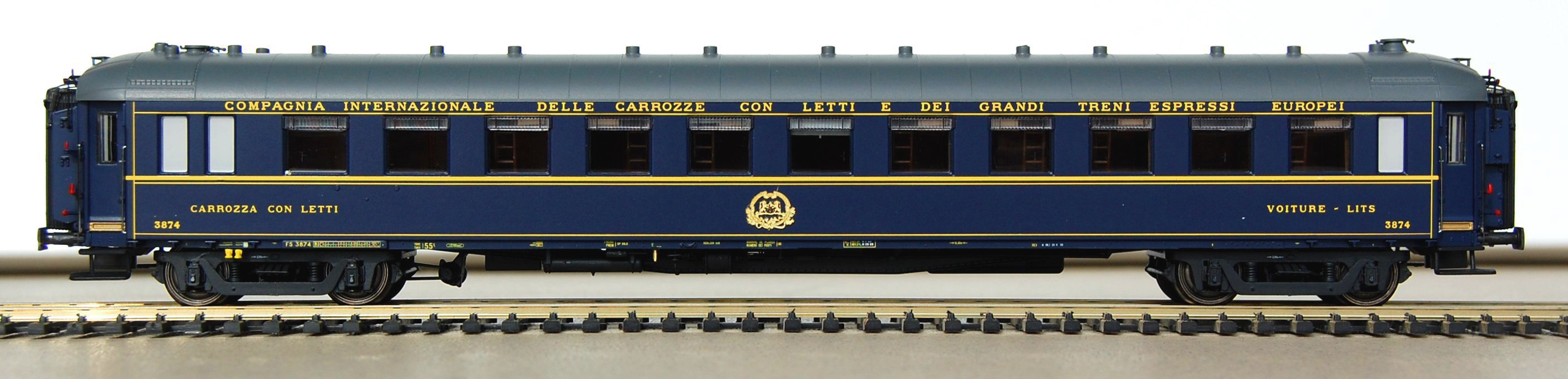 CIWL type Y Sleeping car #3874, reconstruction of the type Z #2727 in 1950, with no belt under the windows and roof welded without dimpling ; original livery ; HO scale model by LS Models.